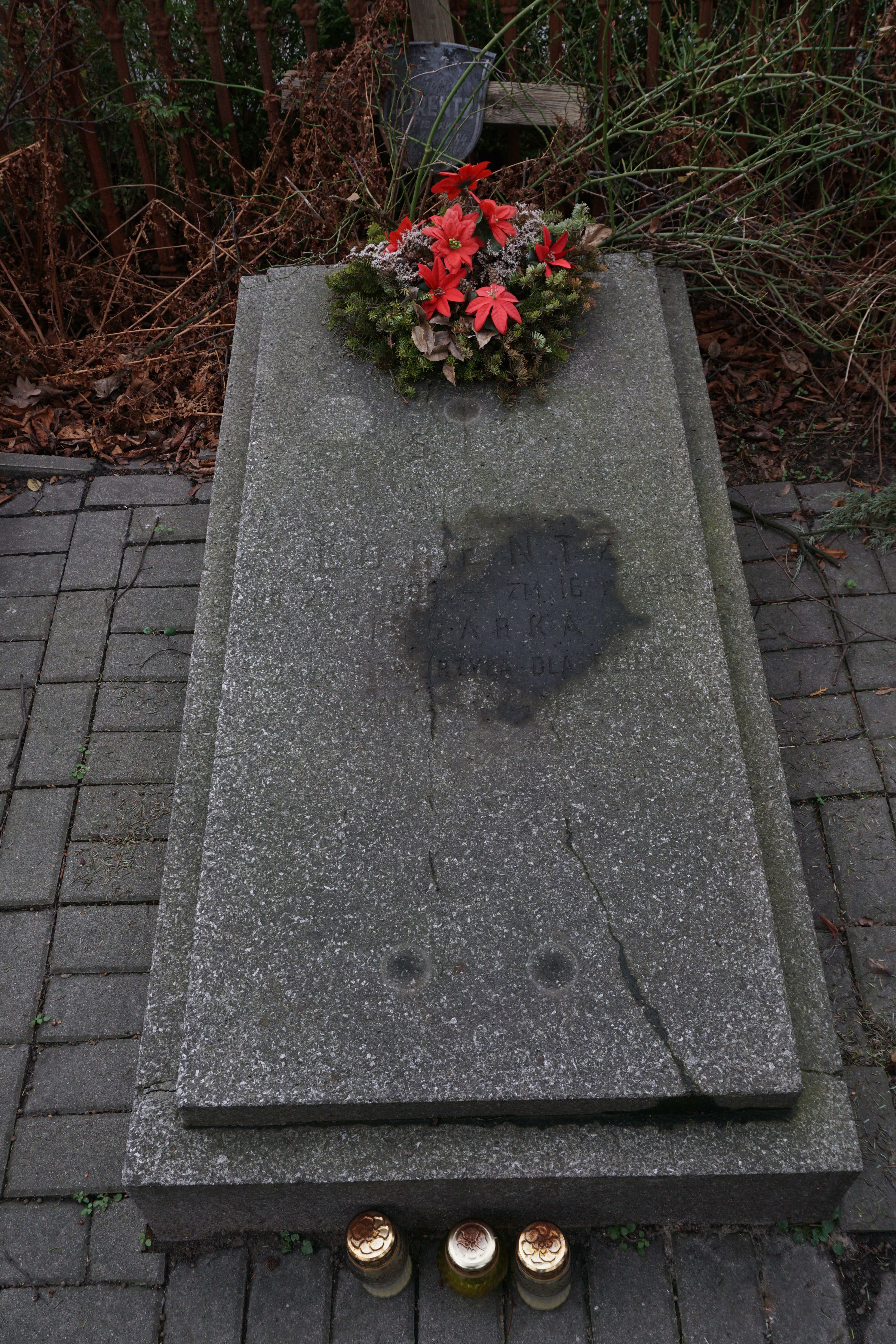 The grave of Zofia Lorentz at the Evangelical-Augsburg Cemetery in Warsaw (avenue 9, grave 13)